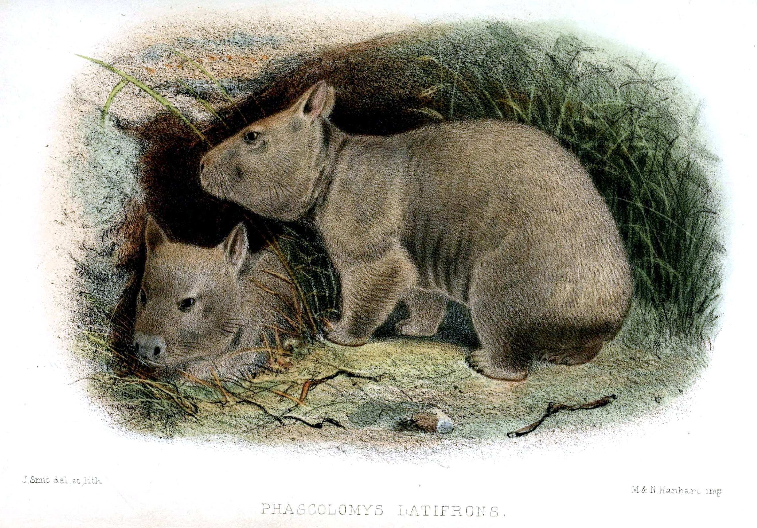 Phascolomys latifrons = Lasiorhinus latifrons